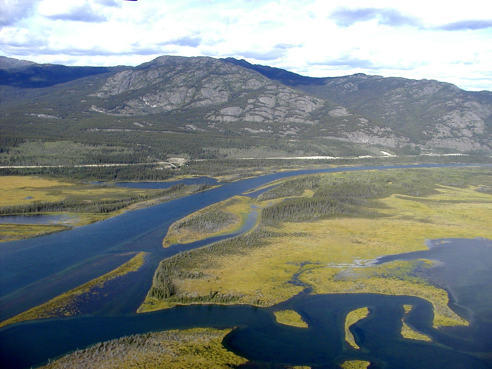 Yukon River aerial photo